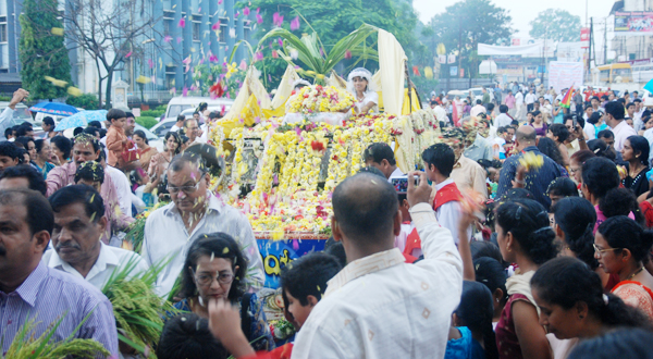 A Monti Fest celebration near the Church of Our Lady of Miracles in Hampankatta, Mangalore.